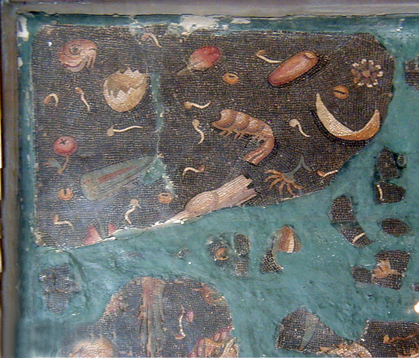 Ancient Roman mosaics in the Bardo National Museum (Tunis).